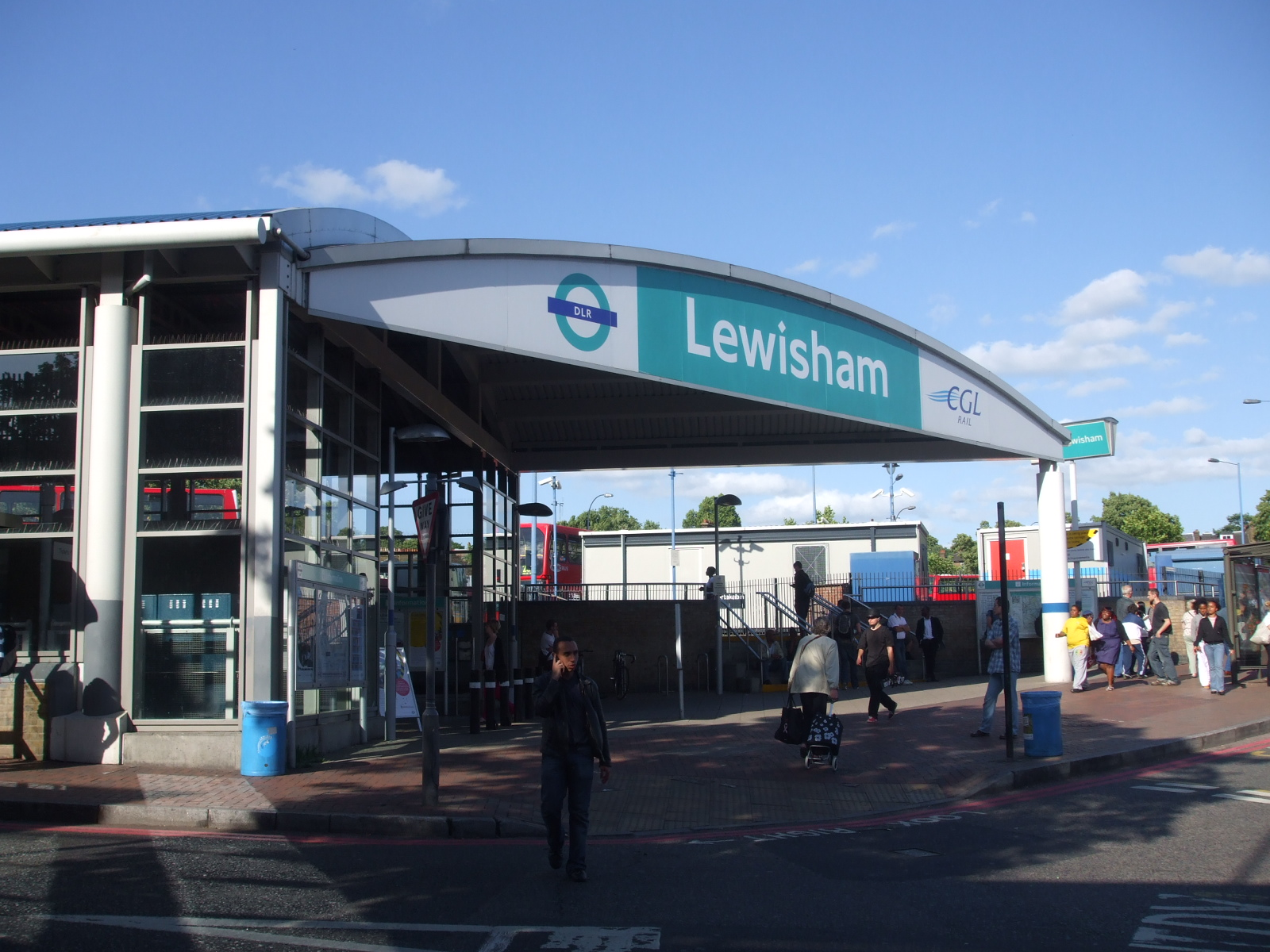 Lewisham DLR station entrance, south of the mainline station